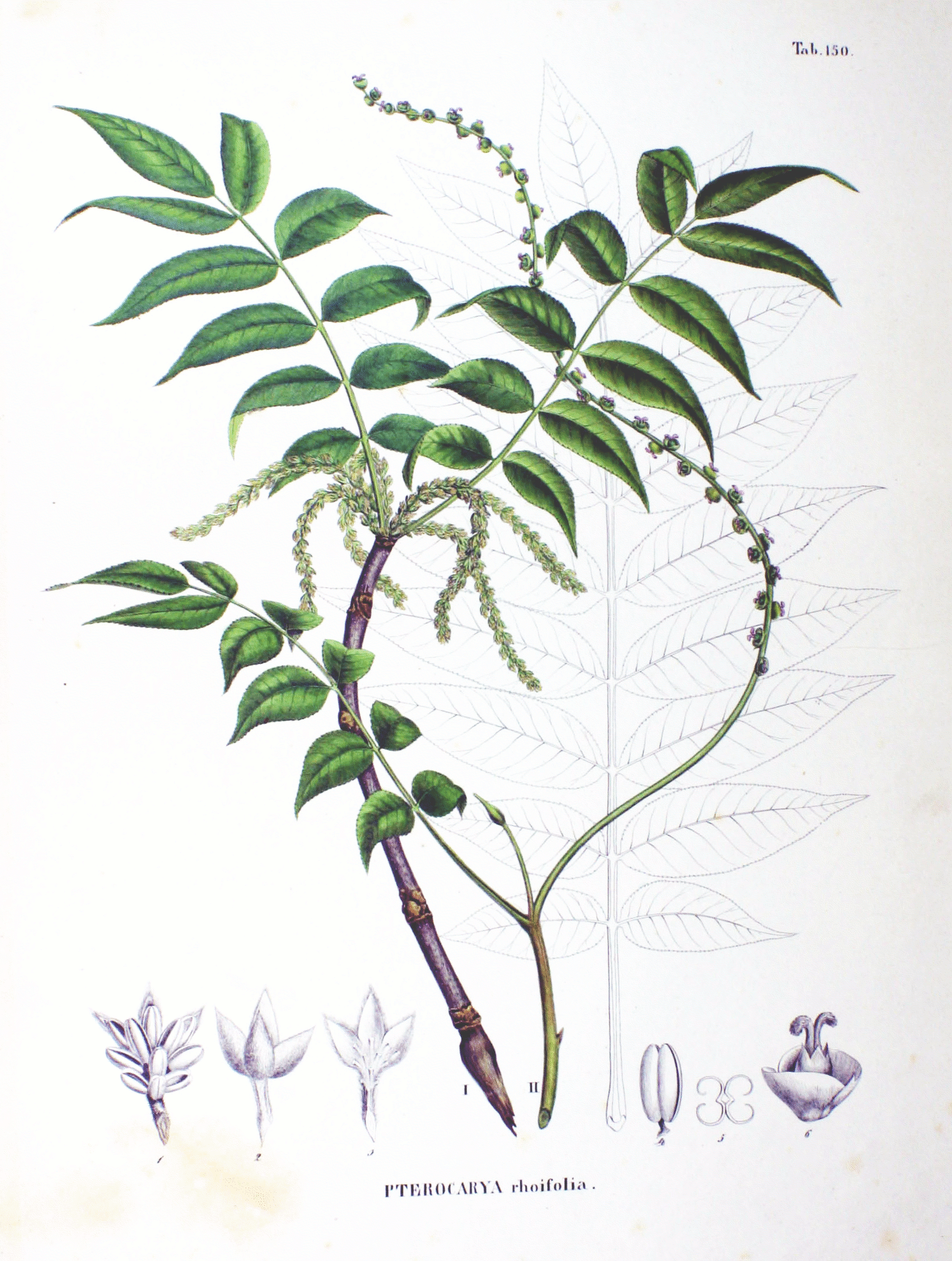 Plate from book